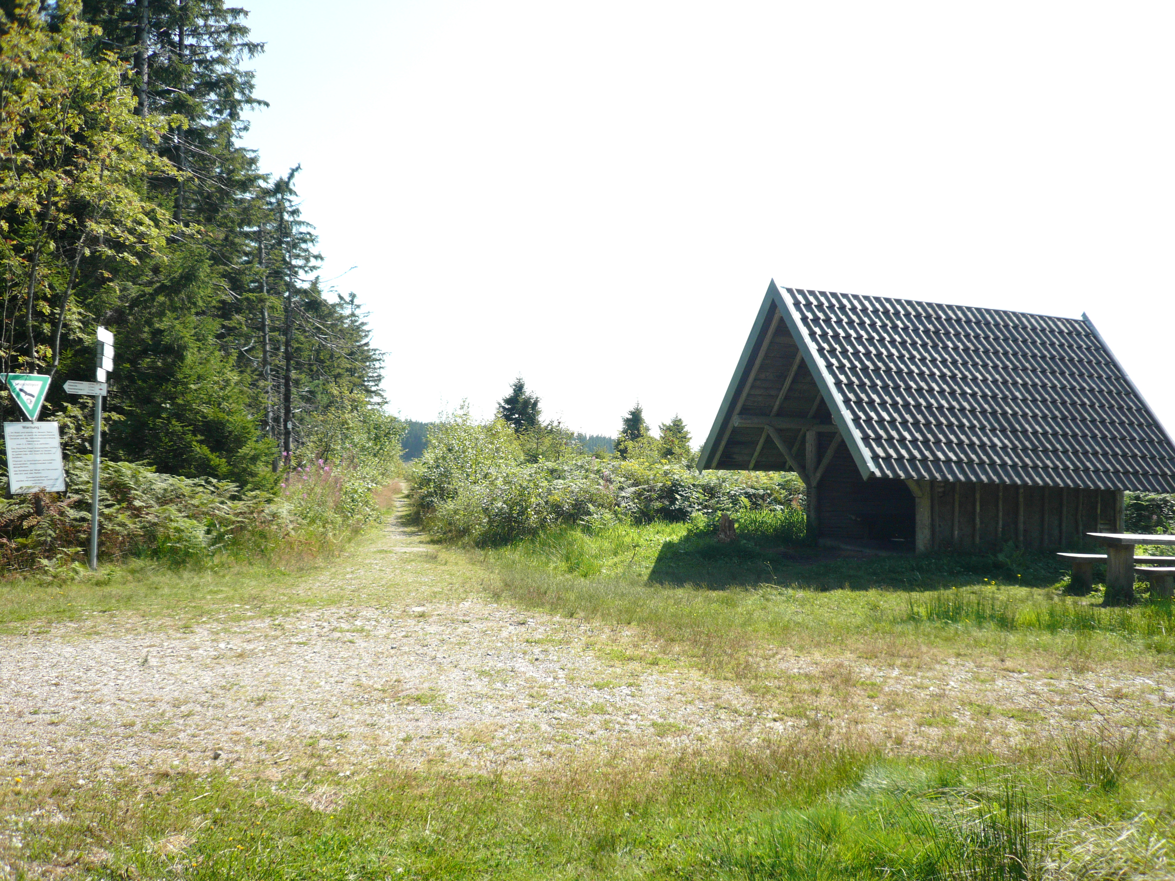 Mountain Lettstaedter Hoehe in Black Forest